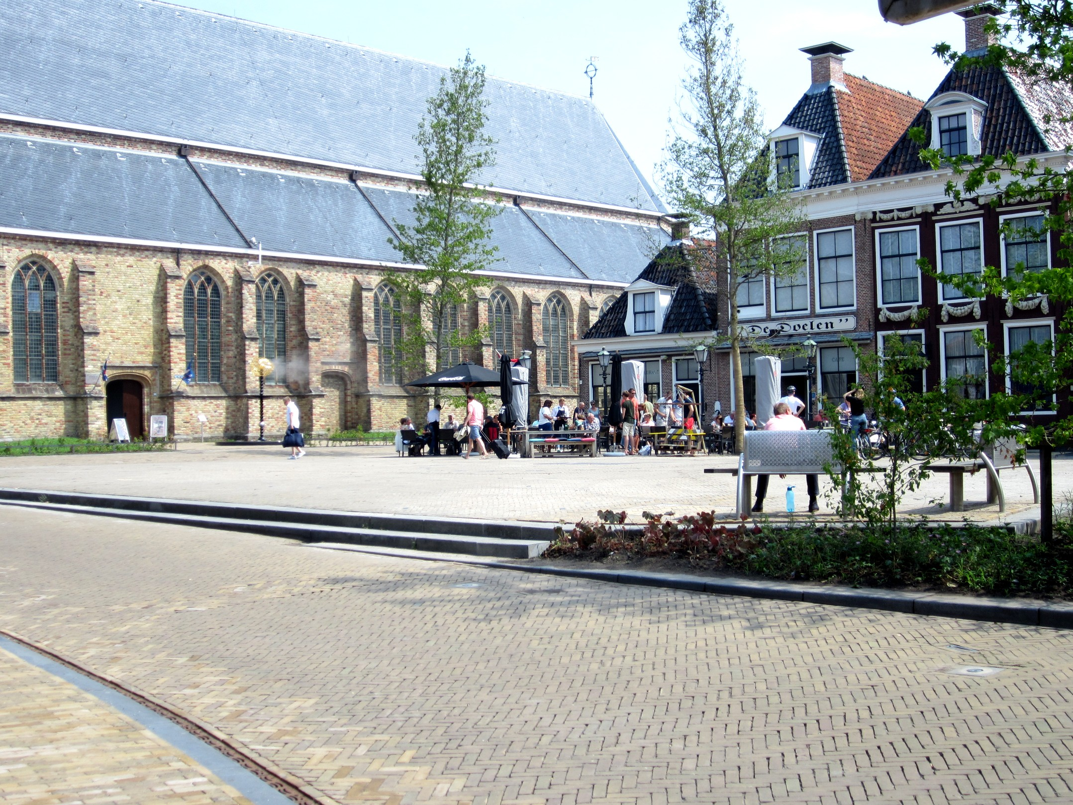 Breedeplaats/Bredepleats square in Franeker/Frjentsjer, Friesland, the Netherlands.